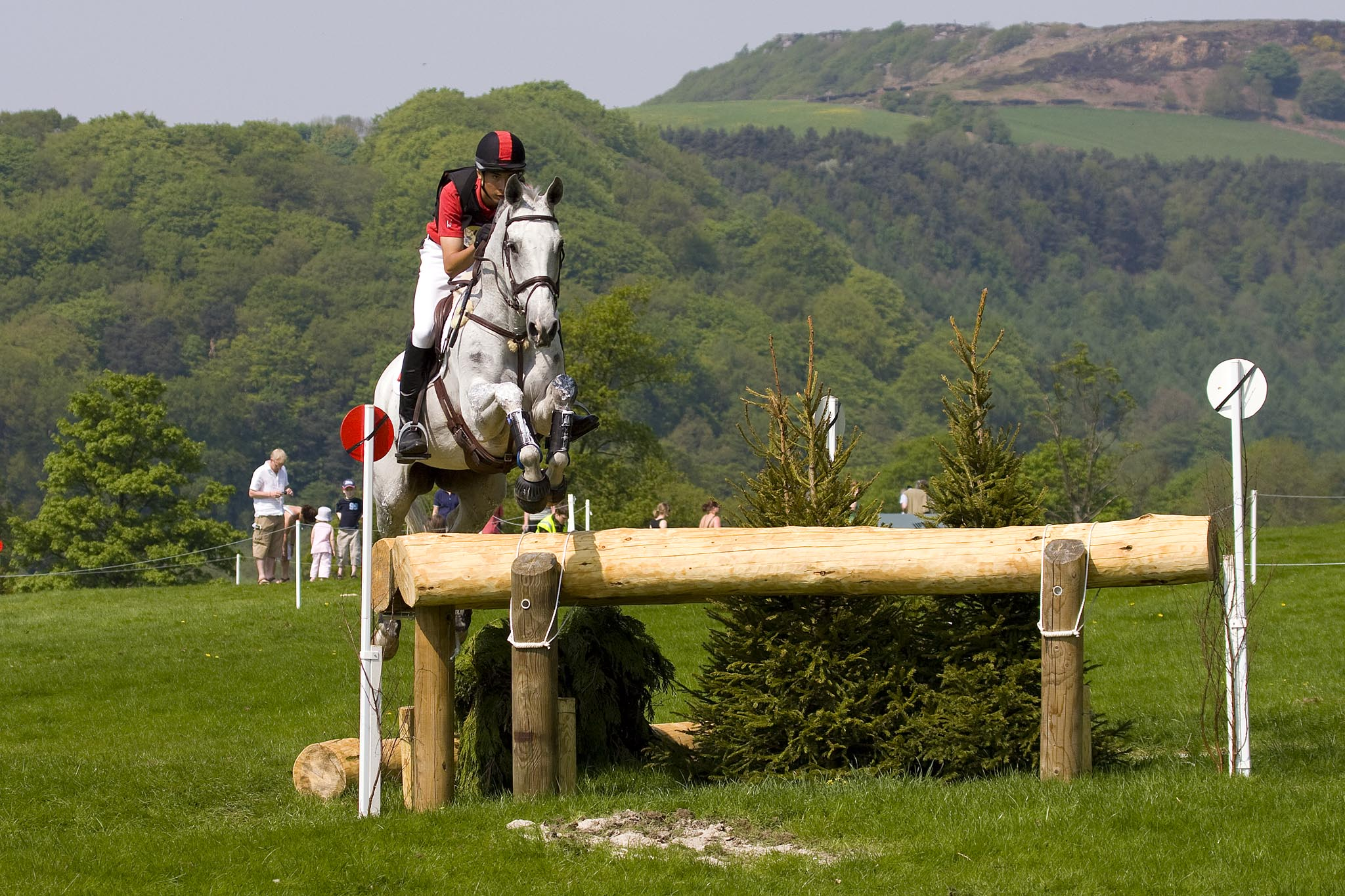 Chatsworth International Horse Trials 2008